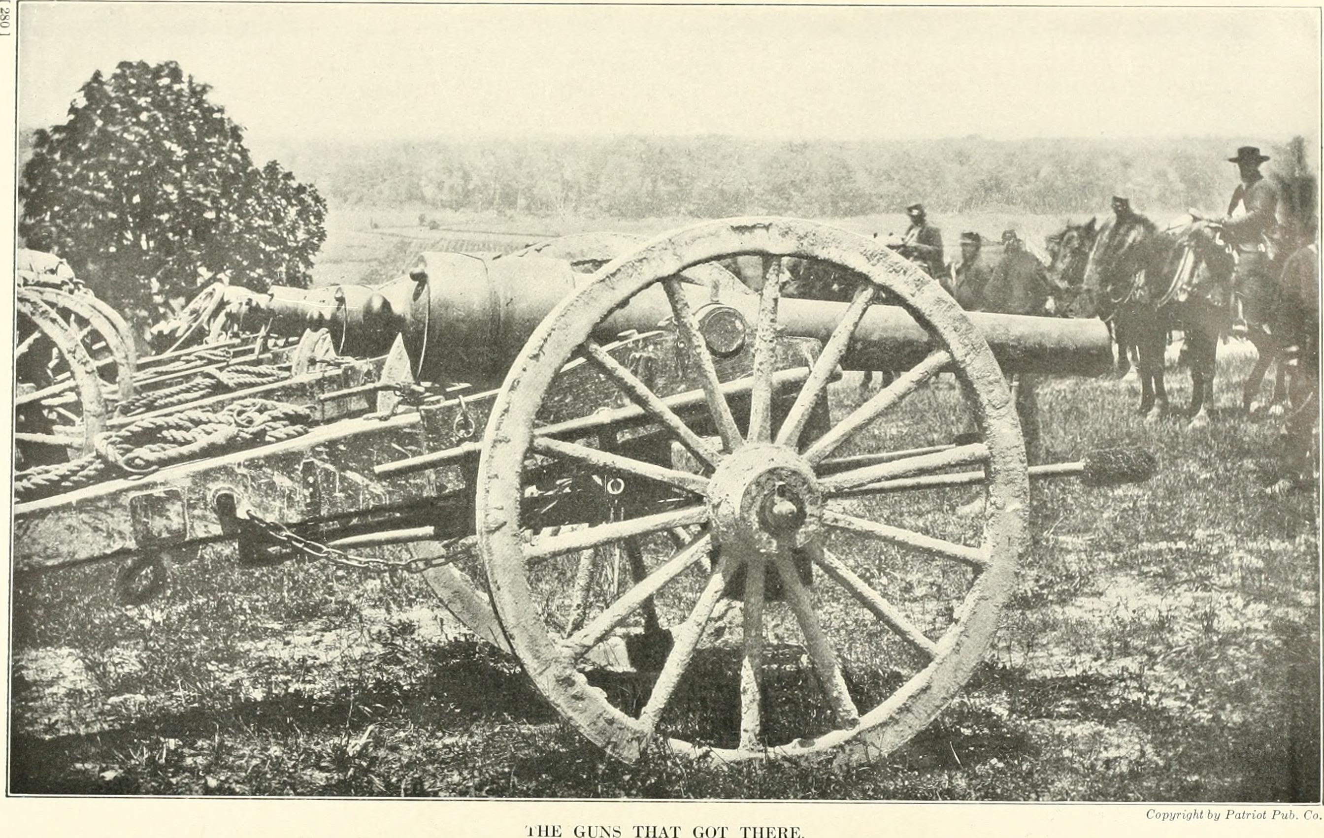 Title: The photographic history of the Civil War : thousands of scenes photographed 1861-65, with text by many special authorities Year: 1911 (1910s) Authors: Miller, Francis Trevelyan, 1877-1959 Lanier, Robert S. (Robert Sampson), 1880- Subjects: United States -- History Civil War, 1861-1865 Pictorial works United States -- History Civil War, 1861-1865 Publisher: New York : Review of Reviews Co. Text Appearing Before Image